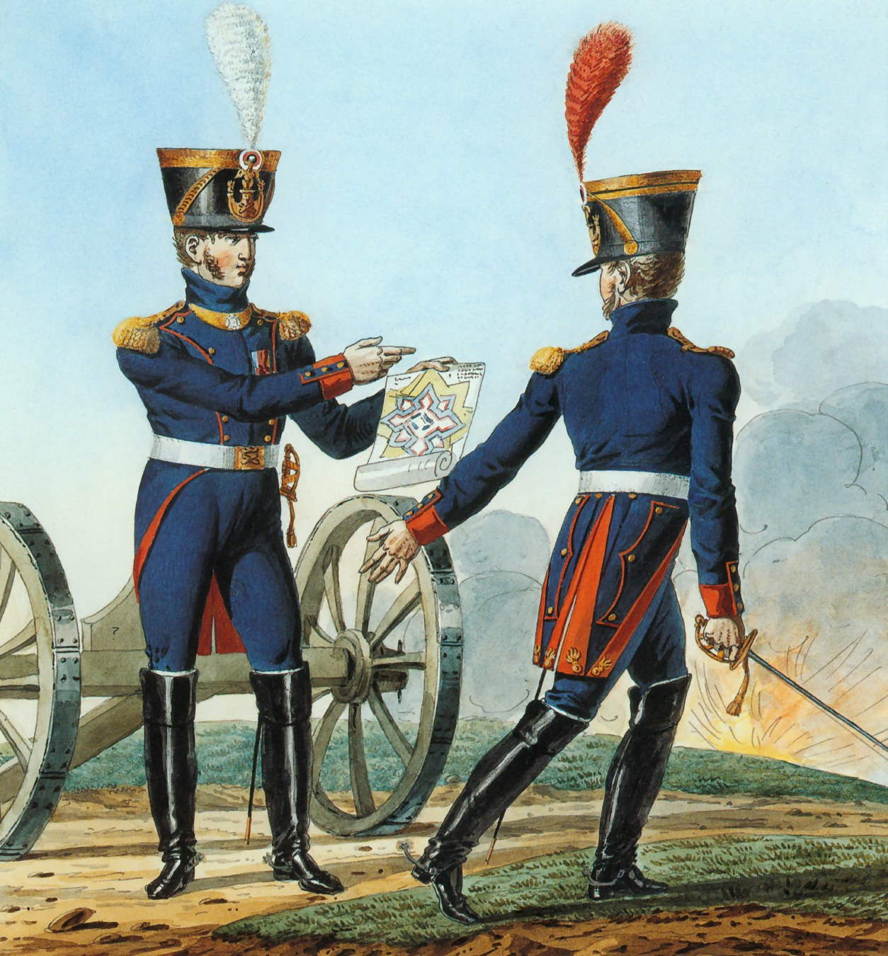 Part of a series chronicling the uniforms of Napoleon's Grande Armée.